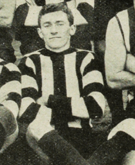 Photograph of Len Gibb in 1912